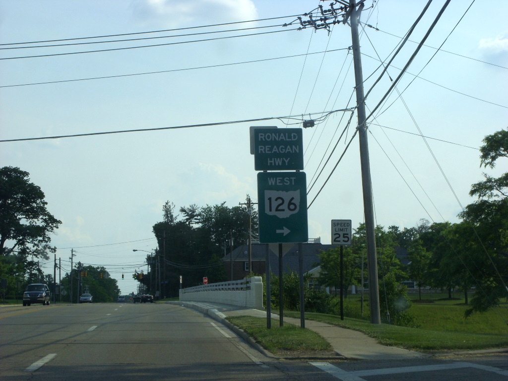 Montgomery Road southbound at the eastern terminus of Ronald Reagan Cross County Highway in Montgomery, Ohio, United States.